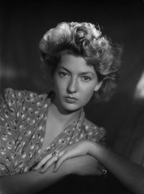 Studio photo